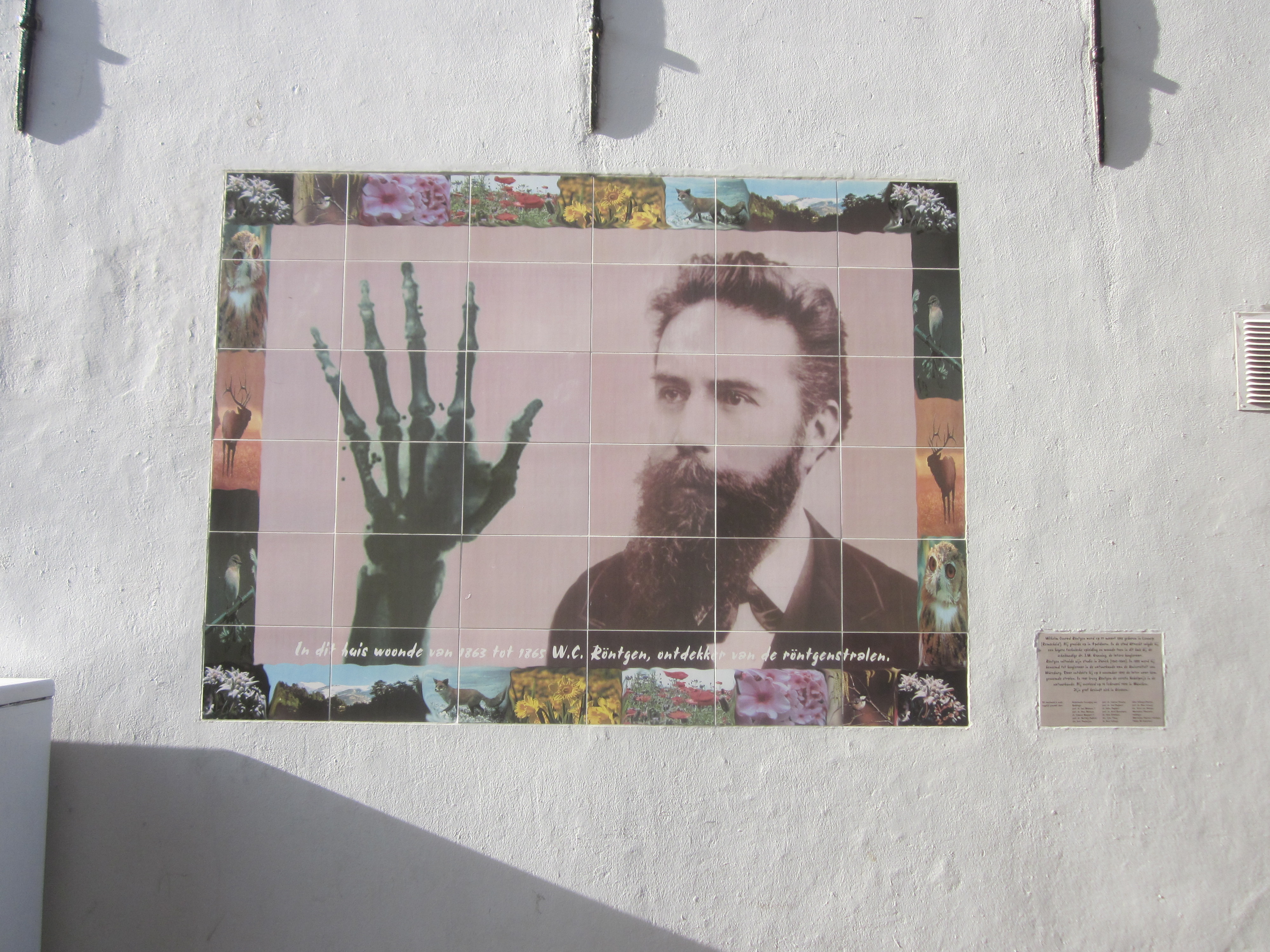 Wal art that depicts the house in which Wilhelm Röntgen lived in from 1863 till 1865 in the Schalkwijkstraat in Utrecht. Made by Jackie Sleper in 2005.